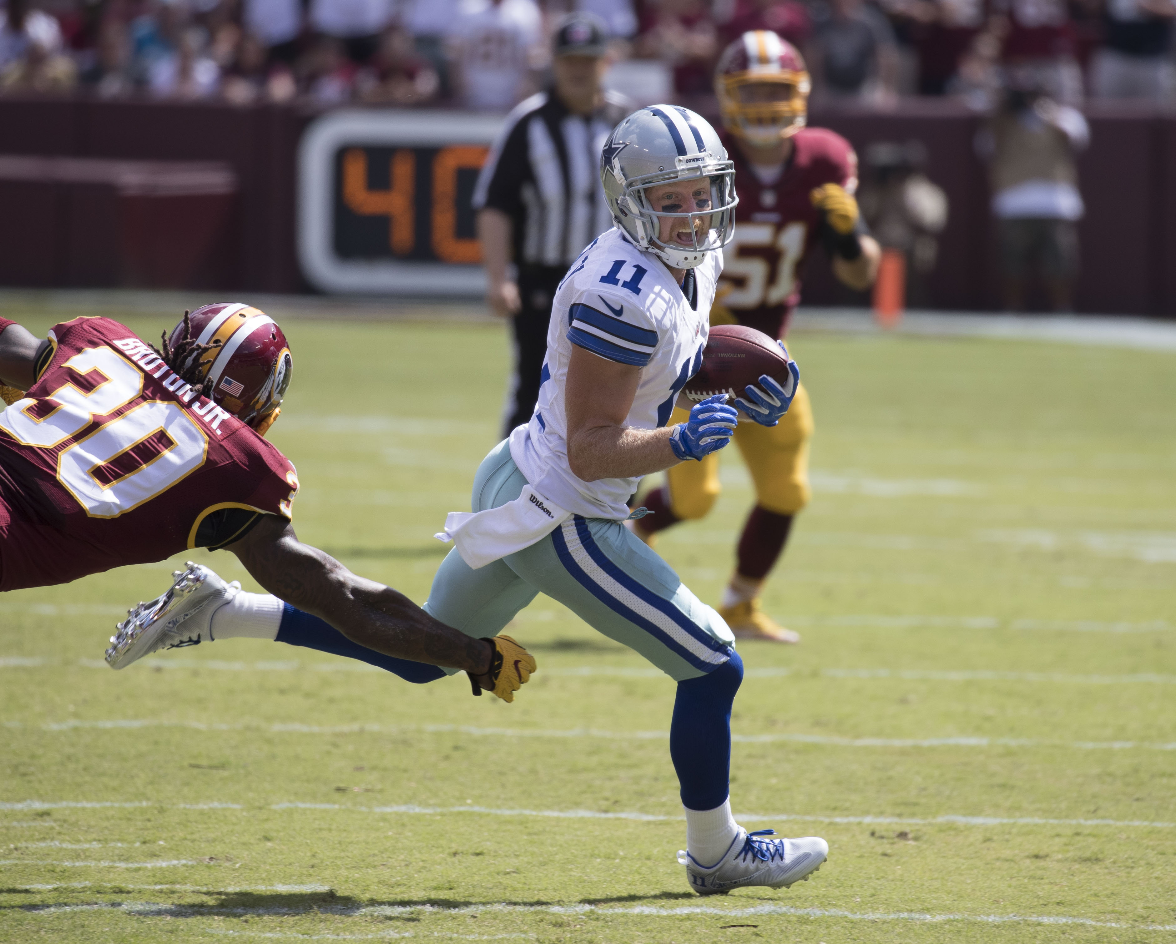 Cowboys at Redskins 9/18/16